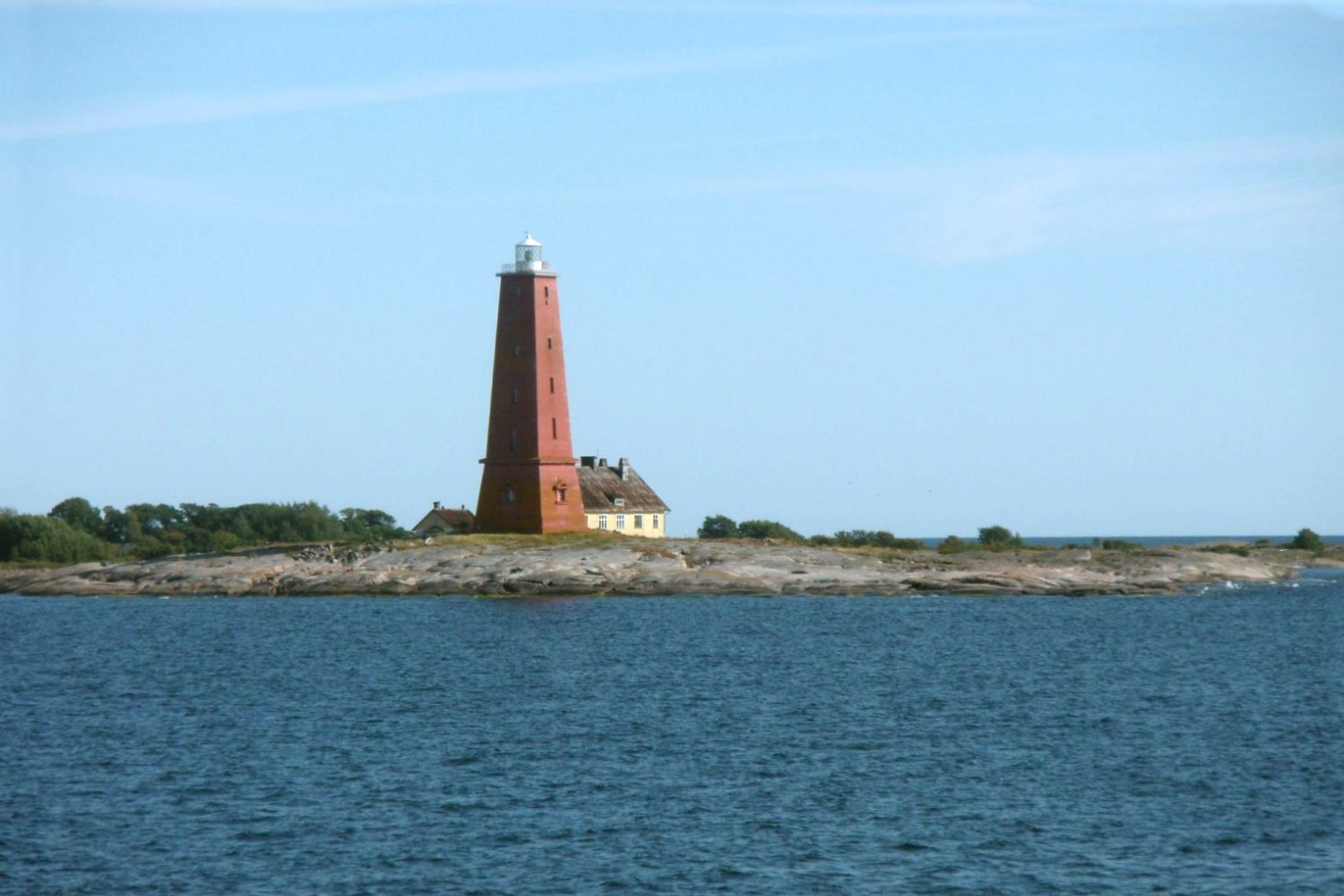 Lågskär lighthouse, seen approximately from the west